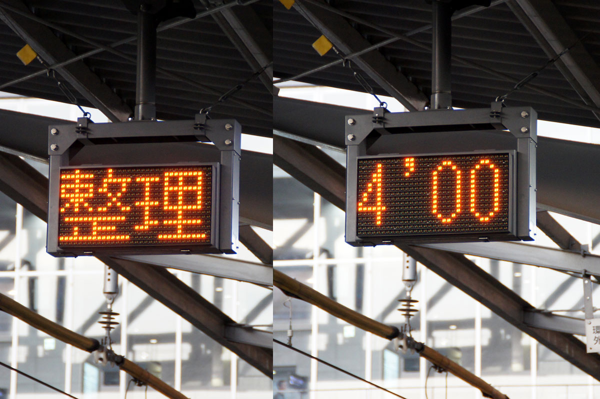 "Operation halt" sign indicator of JR West displaying 4 minutes' delay of trains